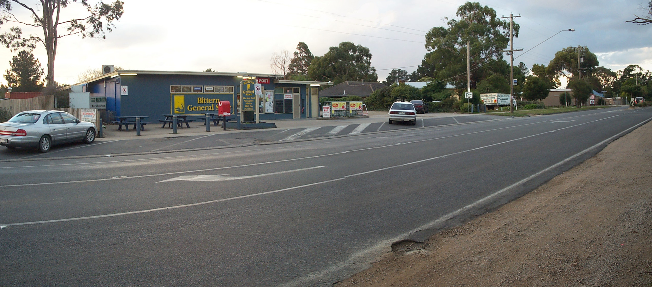 Bittern General Store on Frankston-Flinders Road in Bittern.